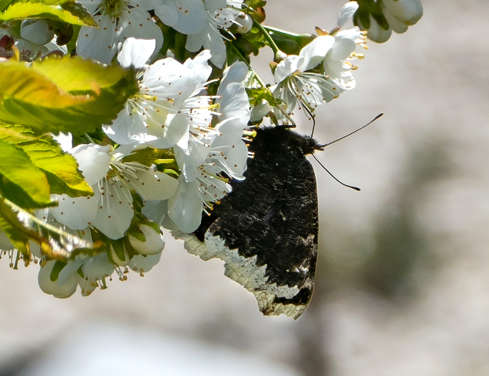 Mourning cloak (Nymphalis antiopa) nectaring on cherry blossoms (Prunus cerasus) in Gåseberg, Lysekil Municipality, Sweden.